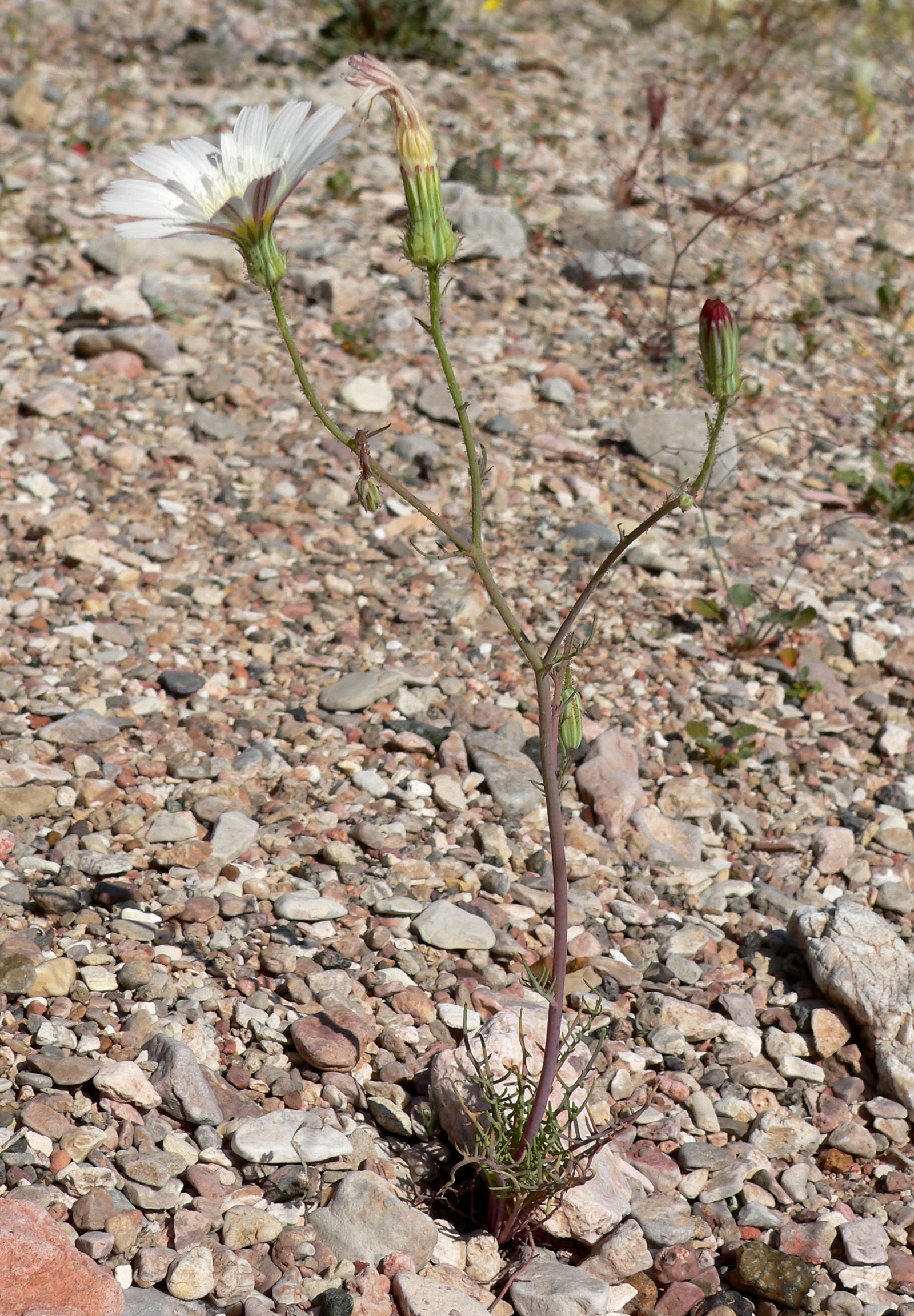 Calycoseris wrightii in upper Gypsum Wash where Lake Mead Blvd crosses it, Lake Mead National Recreation Area, southern Nevada